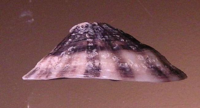 Fissurella radiosa tixierae Metivier, 1969, a keyhole limpet in the family Fissurellidae; Argentina